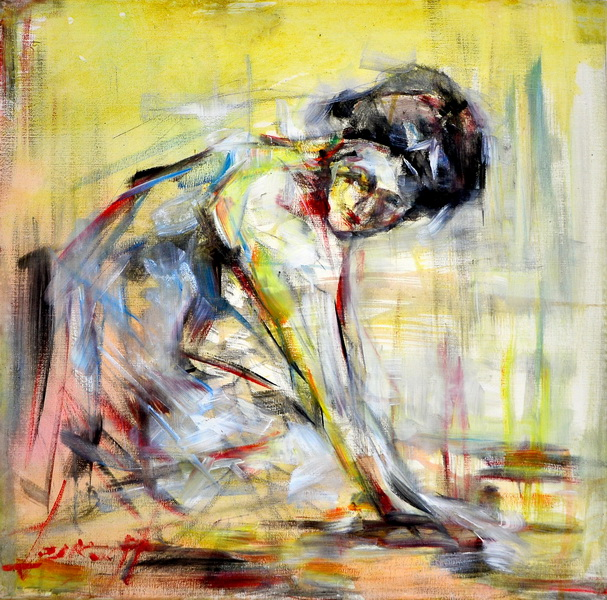 A lady cleaning the floor.